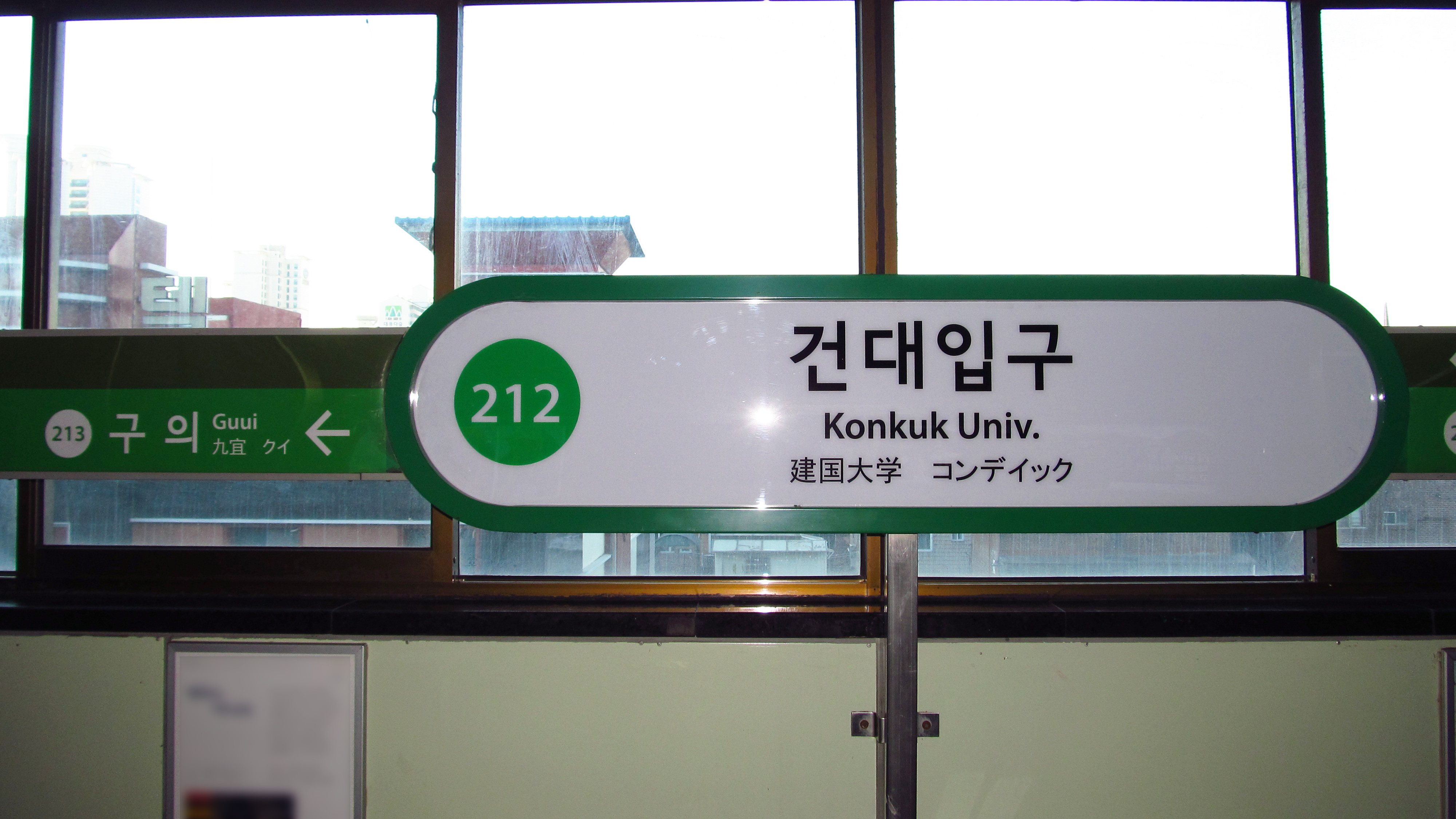 A sign of Konkuk University Station on Seoul Subway Line 2